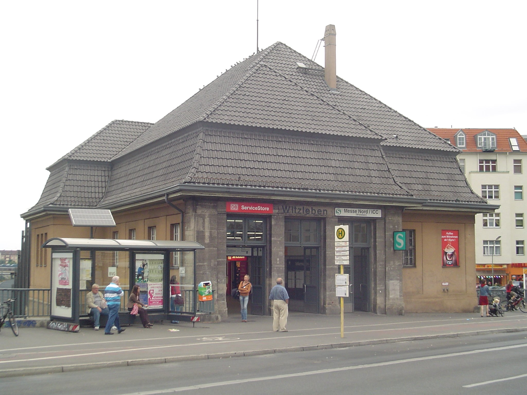 Southern entrance to metro station "ICC Messe-Nord" in Berlin, Germany